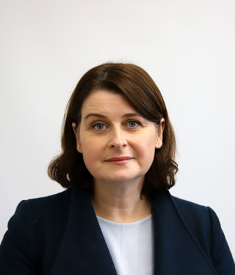 Irish politician Jennifer Whitmore of the Social Democrats, taken in 2020.